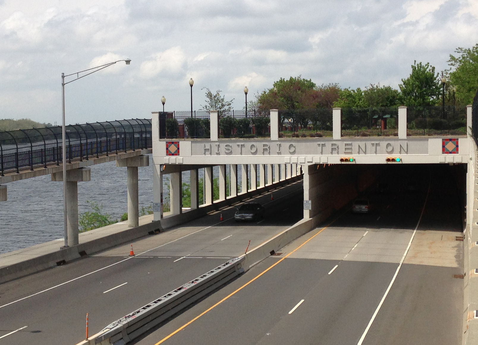 South entrance to the South Trenton Tunnel along New Jersey Route 29-cropped